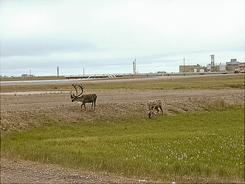 Caribou graze near a road in the Prudhoe Bay oilfield.